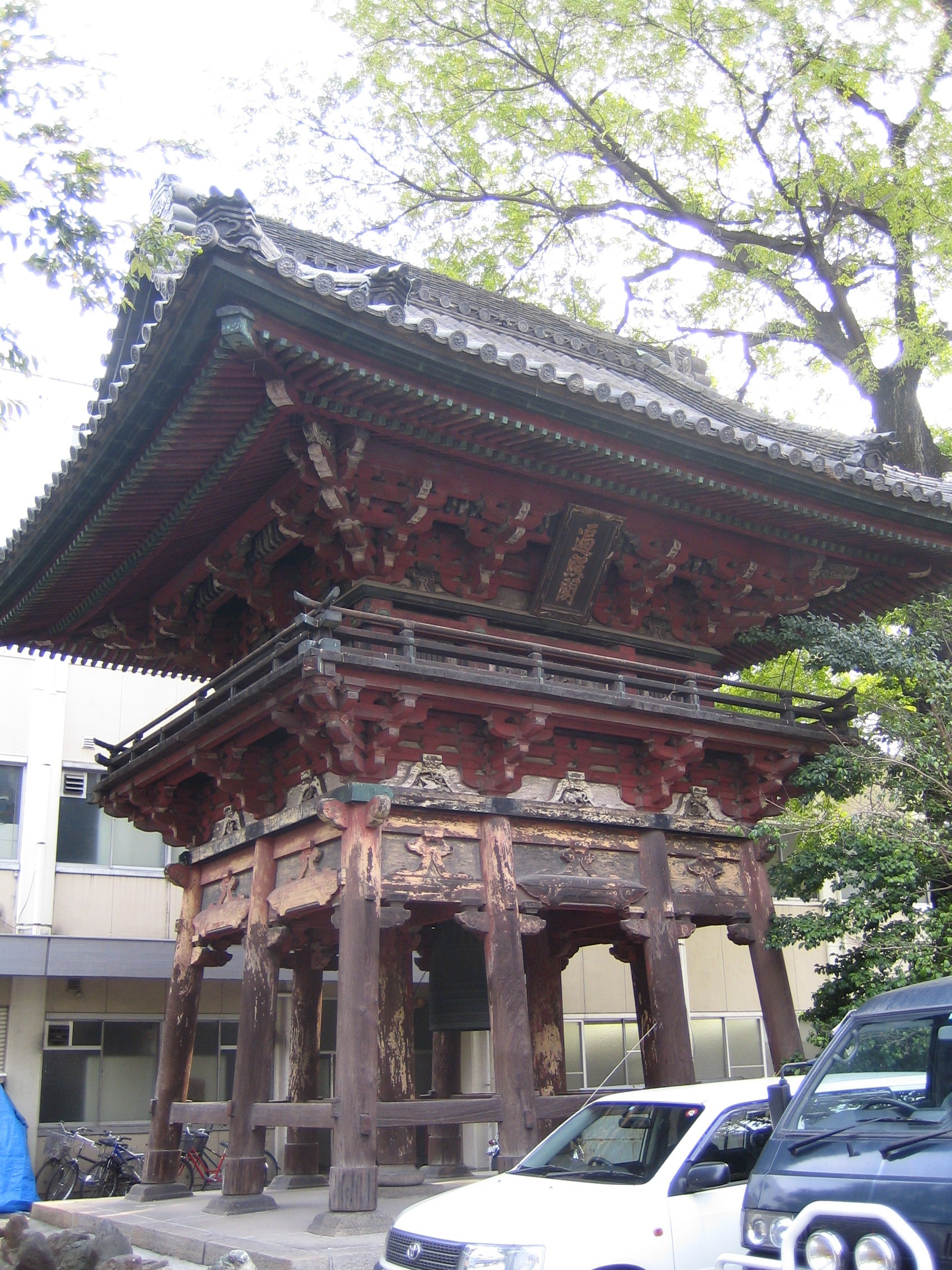 Honganji Nagoya Betsuin (本願寺名古屋別院), located at Naka, Nagoya, Aichi, Japan